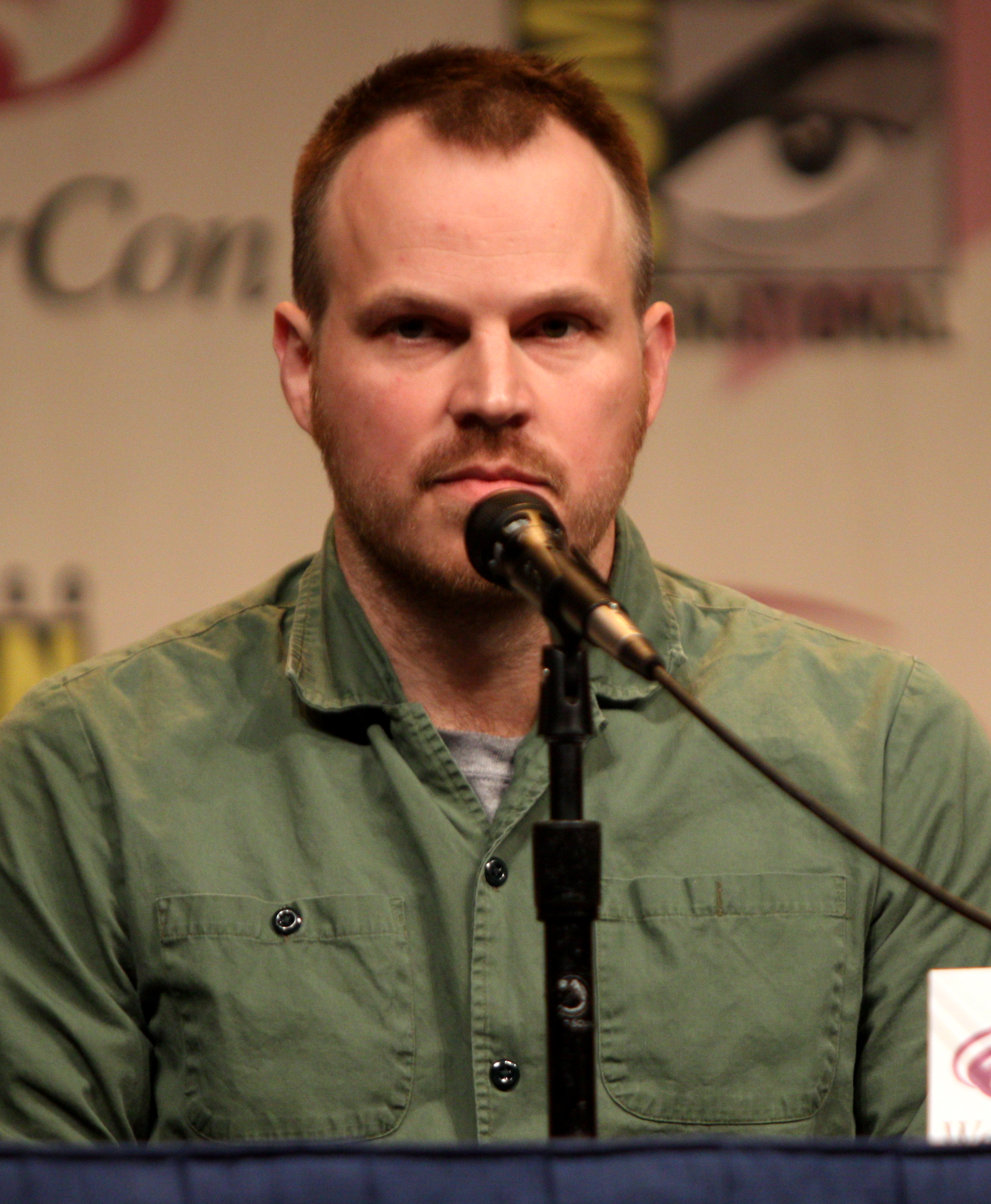 Marc Webb speaking at Wondercon 2012 in Anaheim, California on March 17, 2012.